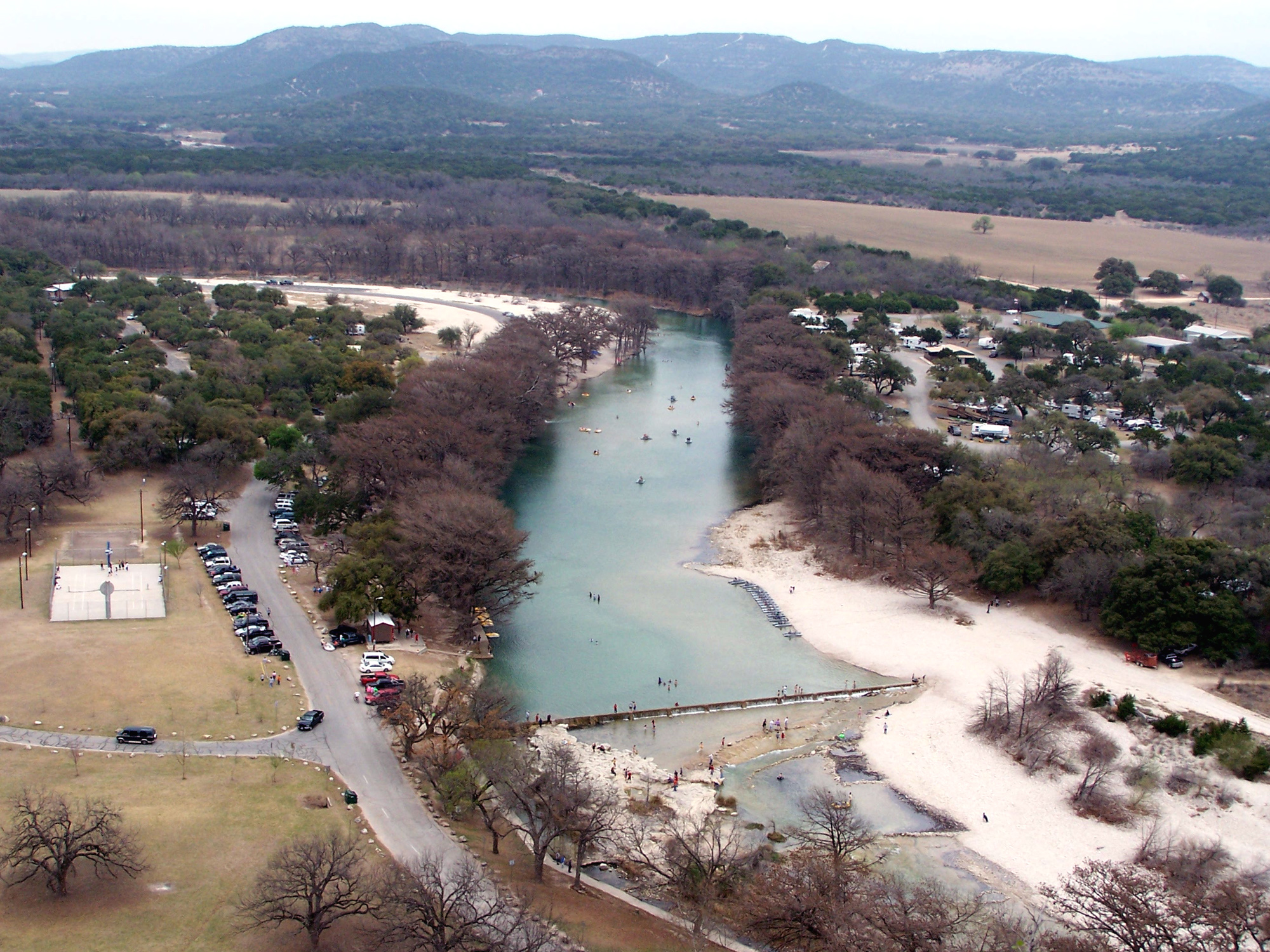 The Frio River viewed from "Old Baldy" at Garner State Park, Uvalde County, Texas, United States (The park is to the left of the river; private RV park on the right).